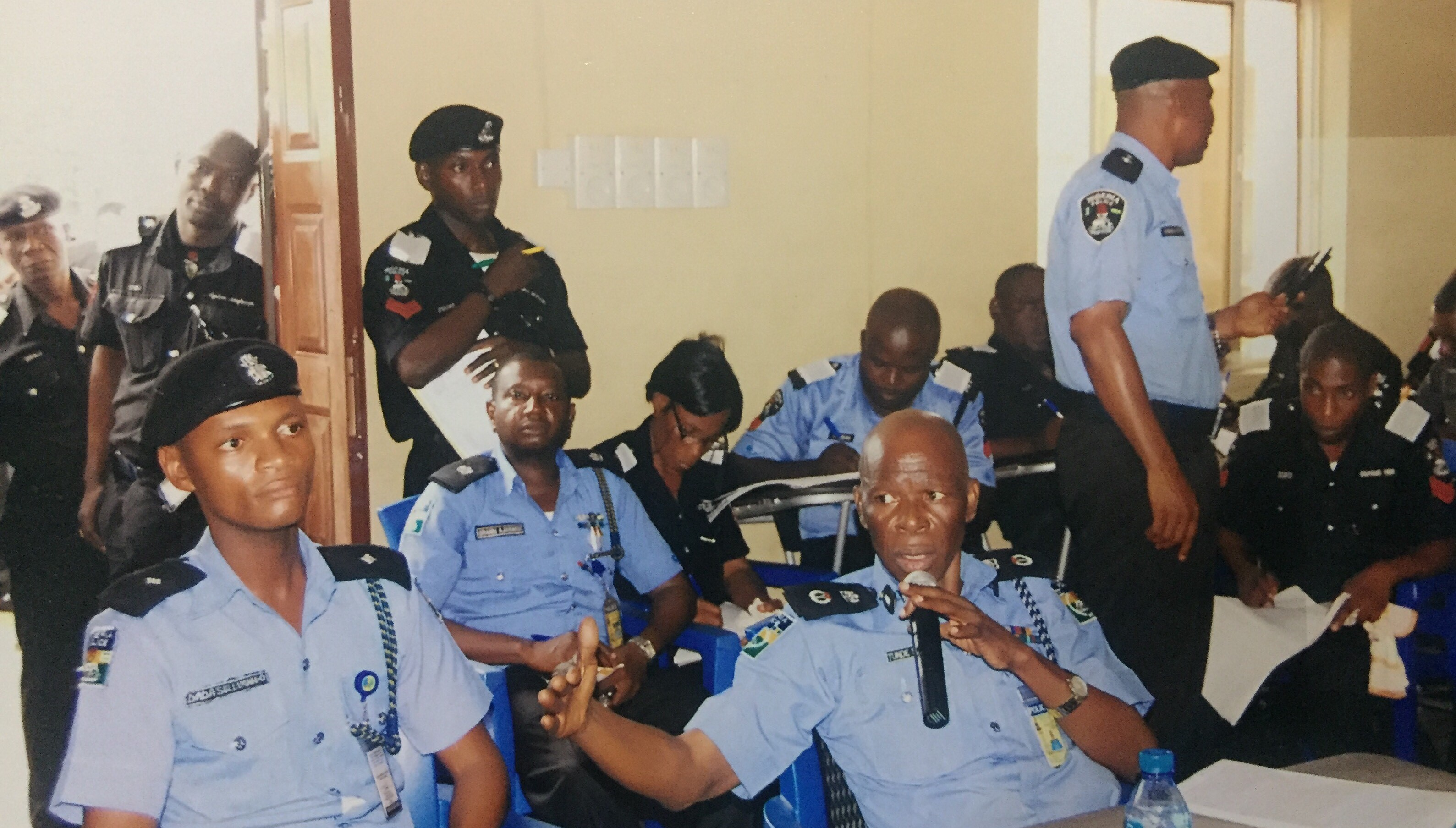 Police College, Lagos, Nigeria